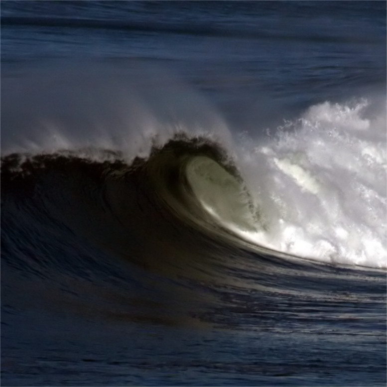 Sea Storm in Pacifica, California